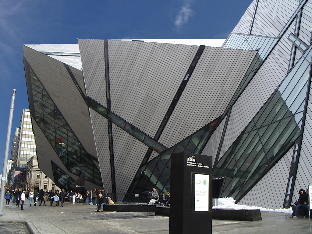 Royal Ontario Museum - Michael Lee-Chin Crystal. Original Metadata Date Picture Taken: 03/14/2008 3:21PM Camera Model: PENTAX Optio 33L